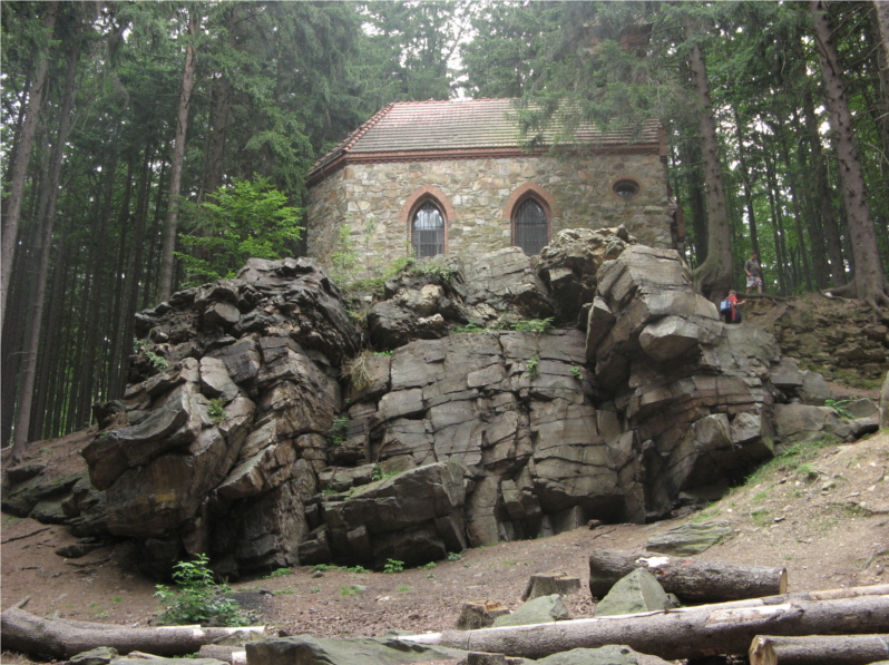 Wiszące Skały on Przednia Kopa